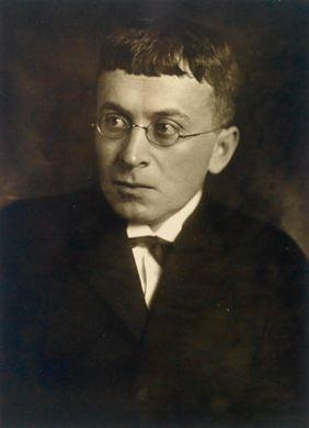 Portrait Karl Kraus, vintage print, silver bromide; 22 × 16 cm